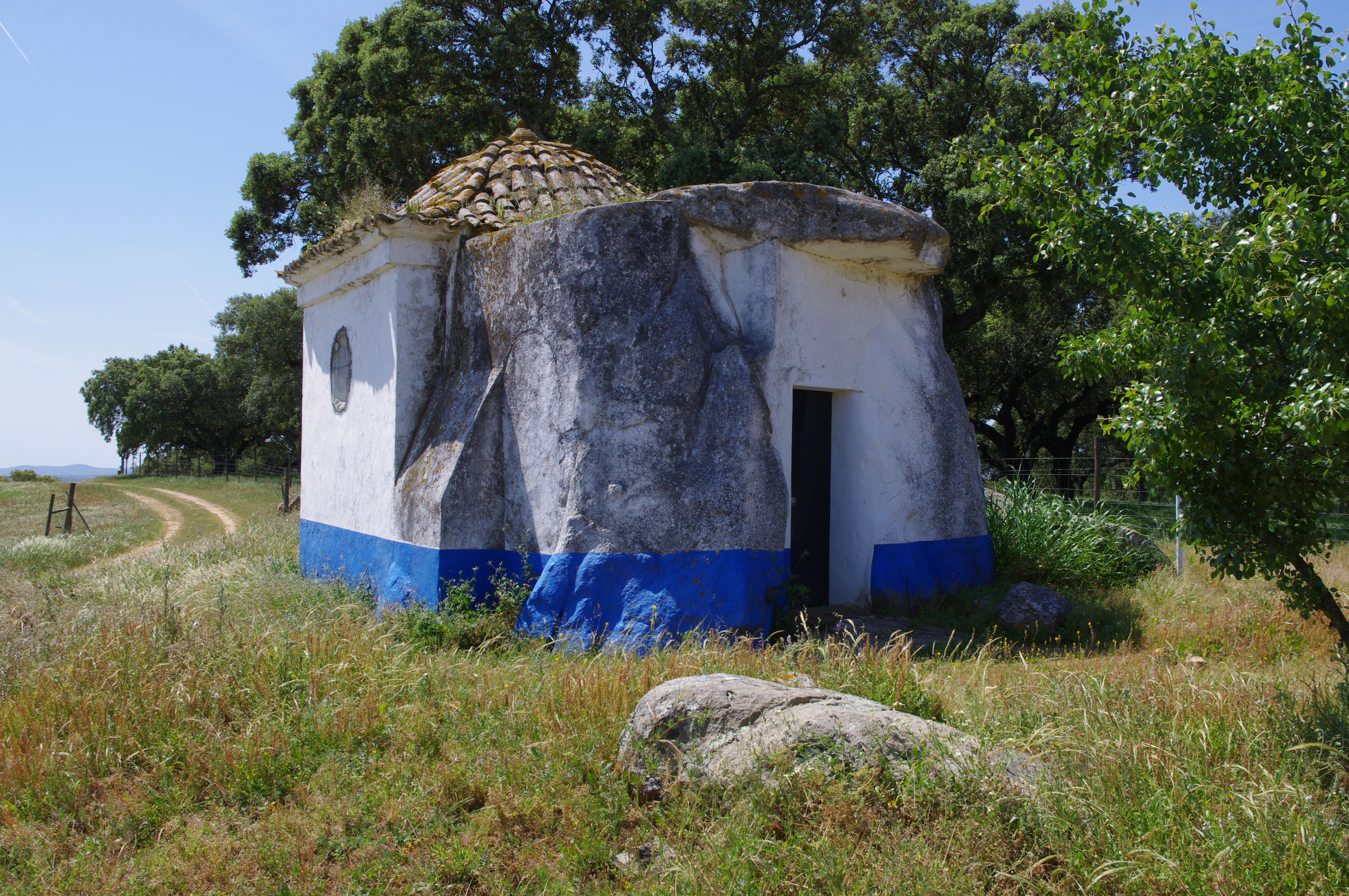 I've seen quite a few examples of "recycling" in which an ancient structure (usually an ancient Roman or Greek temple) was re-purposed as a Christian church, but this is the oldest example I've ever seen. The 6,000+ year-old dolmen was most likely used for some religious purpose thousands of years before Christianity -- or even Judaism -- existed. About 350 years ago, the ancient dolmen was plastered over and converted to a small chapel.